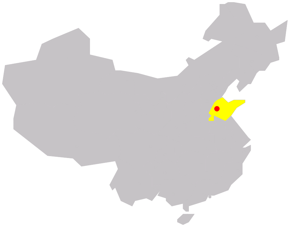 Description: position of Jinan in China Source: own work Date: December 2005 Author: --Immanuel Giel 13:29, 16 December 2005 (UTC) Other versions: none